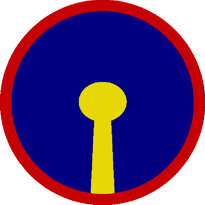 Shieldpattern of Prima Isaura Sagittaria (also Legio I Isaura Sagittaria) in early 5th century. Source: Notitia Dignitatum Or. VII.